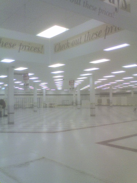 Image of the closing A.J. Wright in Warwick, Rhode Island. Taken by Deckiller.